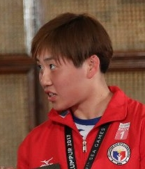 Kiyomi Watanabe, gold medalist for judo at the 2017 Southeast Asian Games (63 kg)